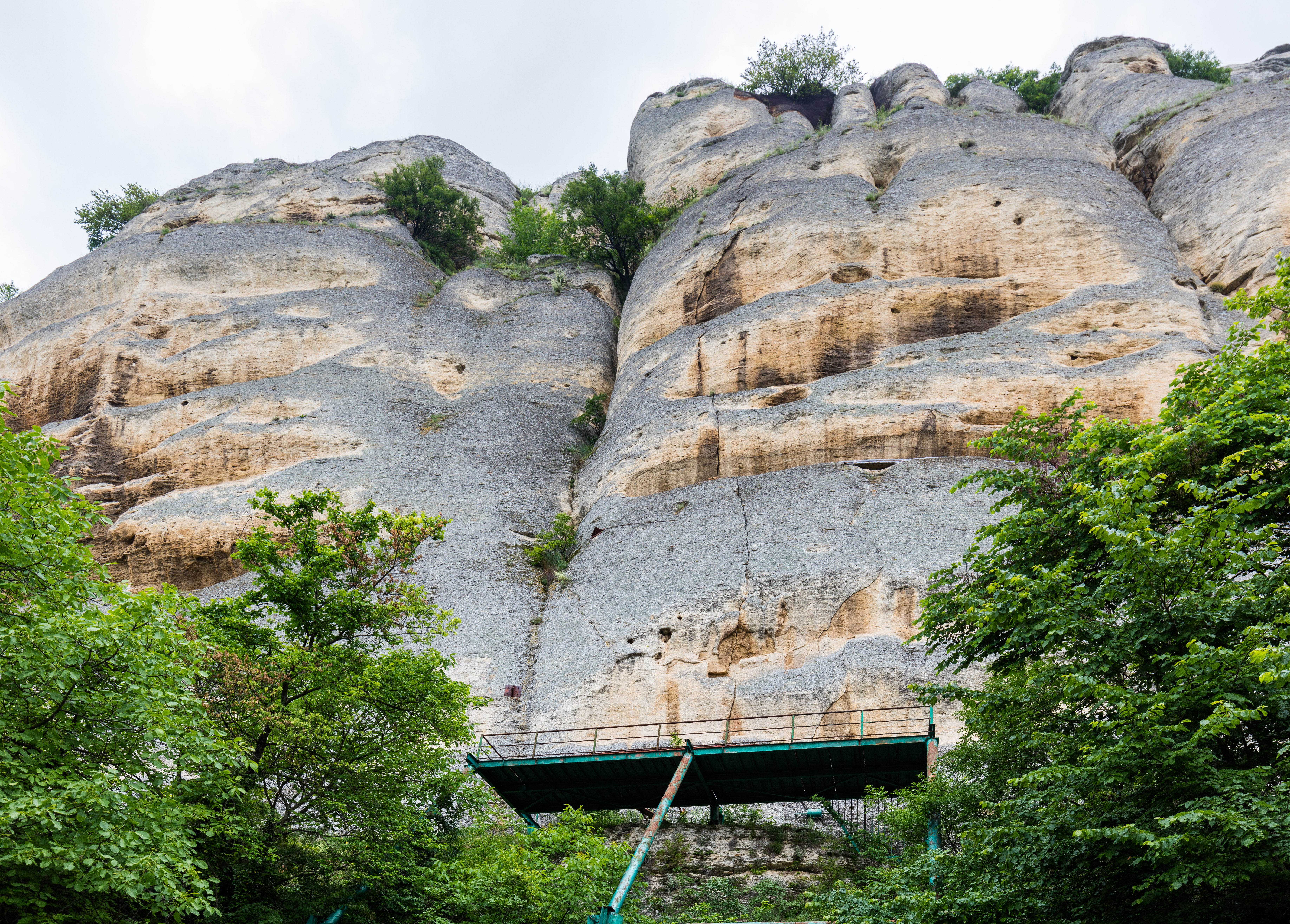 Madara Rider, National historical archaeological reserve, Bulgaria